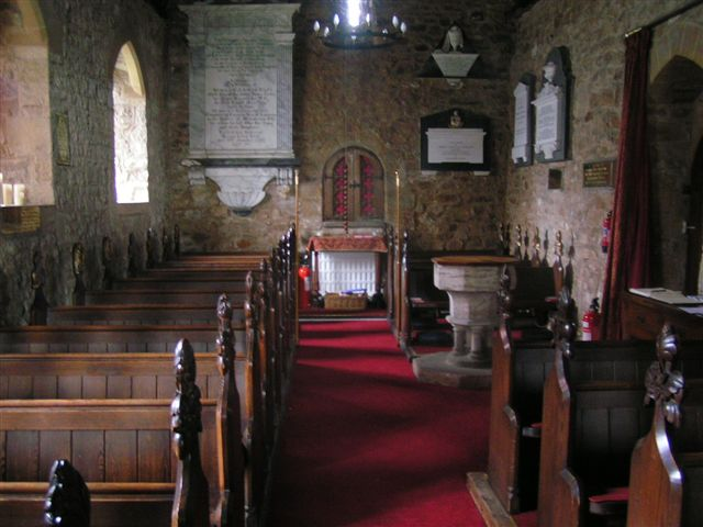 Inside St Peter's parish church, St Pierre, Monmouthshire, Wales, looking west